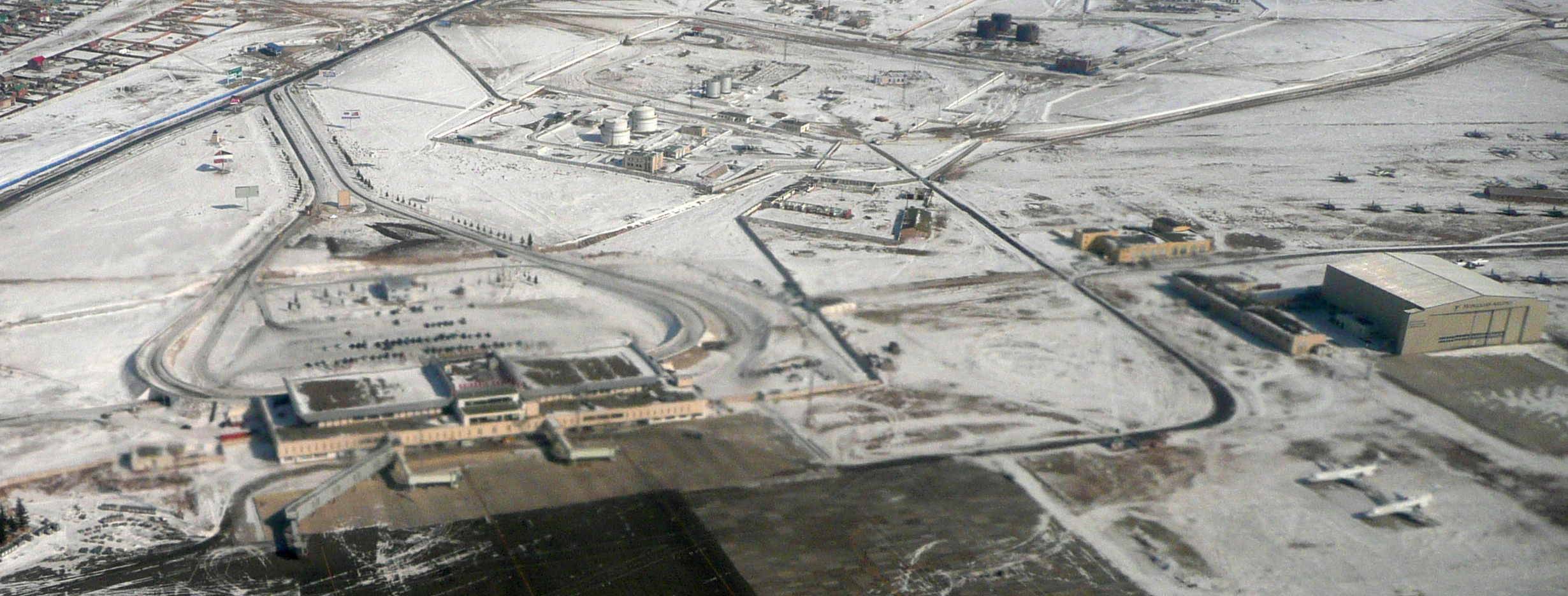 Airport Ulan Bator in Winter, bird's eye view